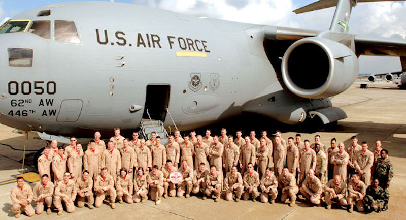 4th Airlift Squadron airmen pose in front of a C-17 Globemaster III at Incirlik Air Base, Turkey, after finishing out a 120-day deployment.